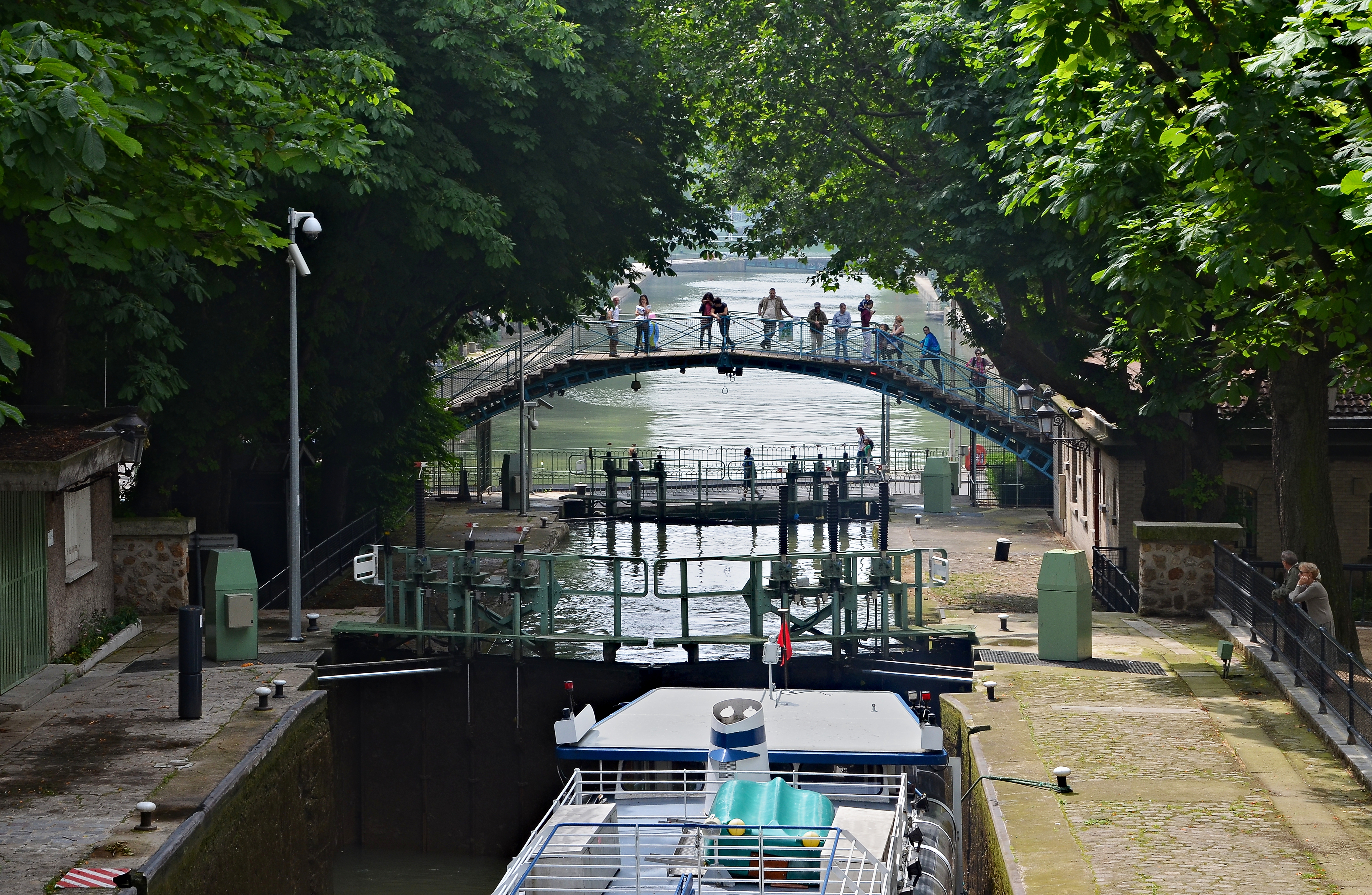 Canal Saint-Martin : the locks of Récollets as seen from the passerelle Bichat, Paris, 10th arrondissement, France.